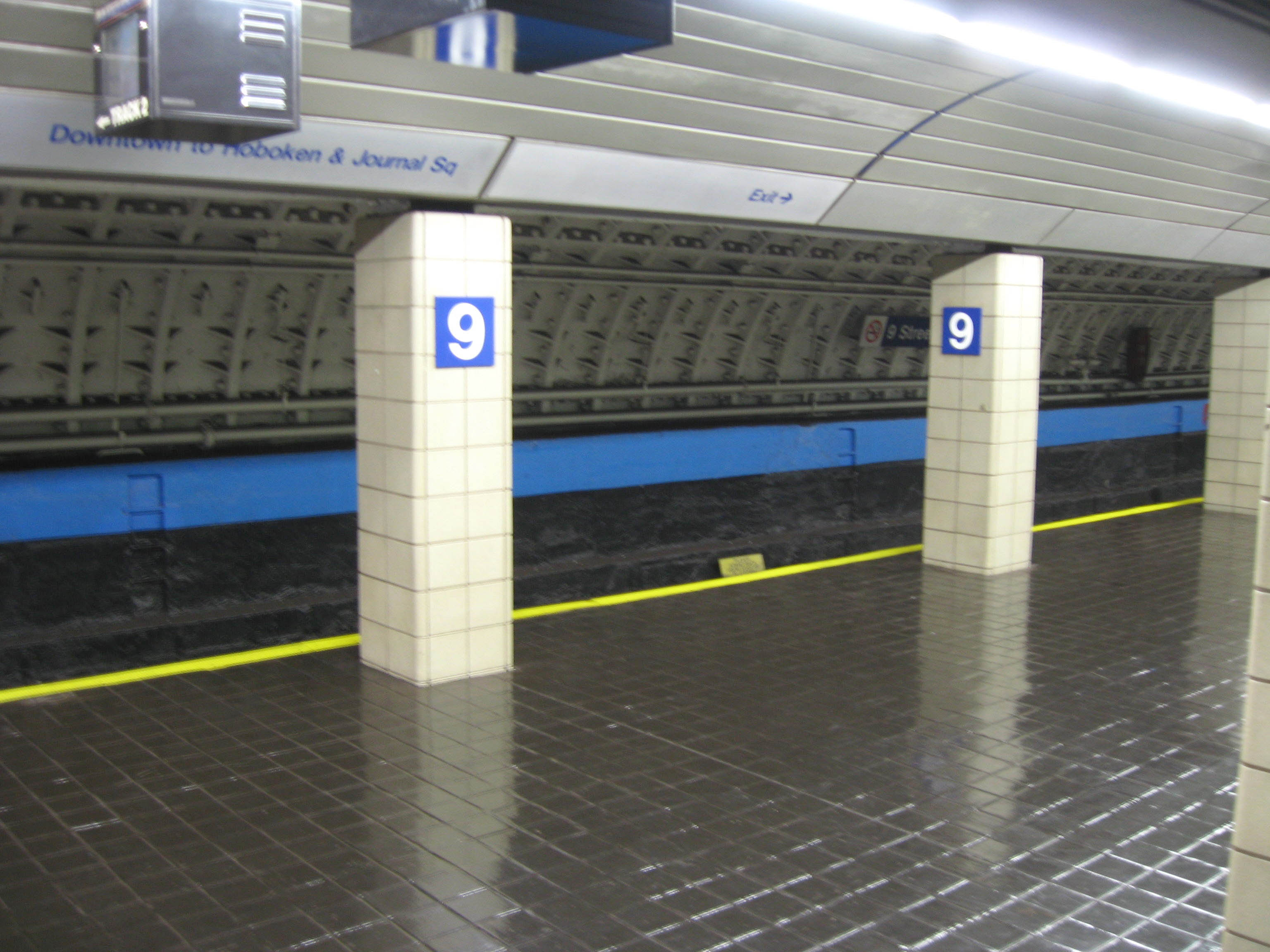 Looking northwest at platform of en:9th Street (PATH station) Manhattan